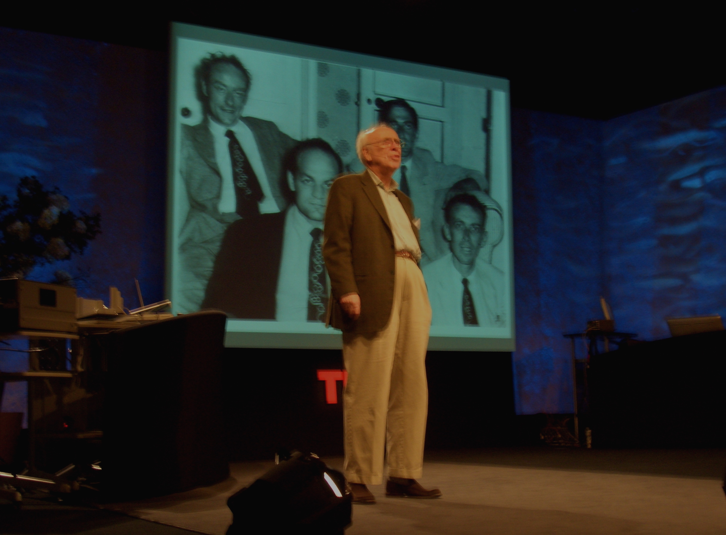 James D. Watson. Watson was in his playful and spunky mood again (blog on his child-like mind). He kicked off the TED brain spa with a recount of his life, from ornithology to the discovery of the double helix, with a healthy dose of self-deprecating humor and honest admissions of open competition with Linus Pauling and mood swings derived from the trials and tribulations of his dating life. “We needed a shortcut, so we build a model instead of solving a formula. Our three strand model was crap, so I was told to build no models. I was incompetent, so I did nothing. I just read a lot.” “It all happened in about two hours. We went from nothing to thing.” “All of us have ten places where we have lost a gene or gained another one. We are all imperfect.” On Screen: the Double Helix Tie Club. Watson’s younger double is on the bottom right.